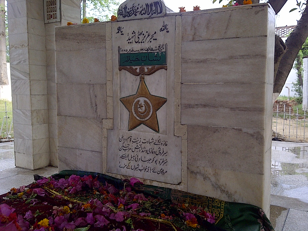 The characteristic calm of a pre-dawn haze in rural Punjab, the companionship of a counterpart, the awakening drive from Mangla to Ladian, and we were at the doorstep of Major Raja Aziz Bhatti Shaheed, Nishan e Haider. The picture is of the gravestone of Major Sahib’s tomb. The inscription reads: میجر عزیز بھٹی شھید تاریخ شھادت 12 ستمبر 1965 نشان حیدر غازہءروءےشھادت،زینت قوم و وطن سرفروش و غازی و شدادکش مرحب فگن سرخرو ھو کے جھادفی سبیل اللہ سے مرد مومن لے رھا ھے خواب شیریں کے مزے Major Aziz Bhatti Shaheed Date of Shahadat: 12 September 1965 Nishan e Haider The Rouge of the Face of Shahadat, the Adornment for the Country and the Nation, The Valiant, and the Conqueror, and the Striker of the Sword, and the Praiseworthy of the Combat, The one who has been victorious in the struggle for the cause of ALLAH, Is lying here in the Delight of the Afterlife Dream!!! Major Raja Aziz Bhatti Shaheed is the first recipient of Sword of Honour and Norman Medal from 1st PMA Long Course. An outstanding officer throughout his military career and eventually the recipient of the Highest Gallantry Award of Pakistan Army the “Nishan e Haider” during 1965 India Pakistan War. During the war, Major Raja Aziz Bhatti Shaheed, as a Company Commander in the Burki area of the Lahore sector stayed with his forward platoon under constant artillery and tank attacks for five days and nights in the defence of the strategic Bambanwali Ravi Bedian Link Canal. He led his men from the front and placed himself at an elevated position to better observe and direct the fire from his company. In doing so, he got exposed to the enemy and was hit by a tank shell in the chest and embraced martyrdom on 12 September 1965. He was buried in the courtyard of his ancestral house, The Haveli of Master Muhammad Abdullah Bhatti, in village Ladian near Gujrat.